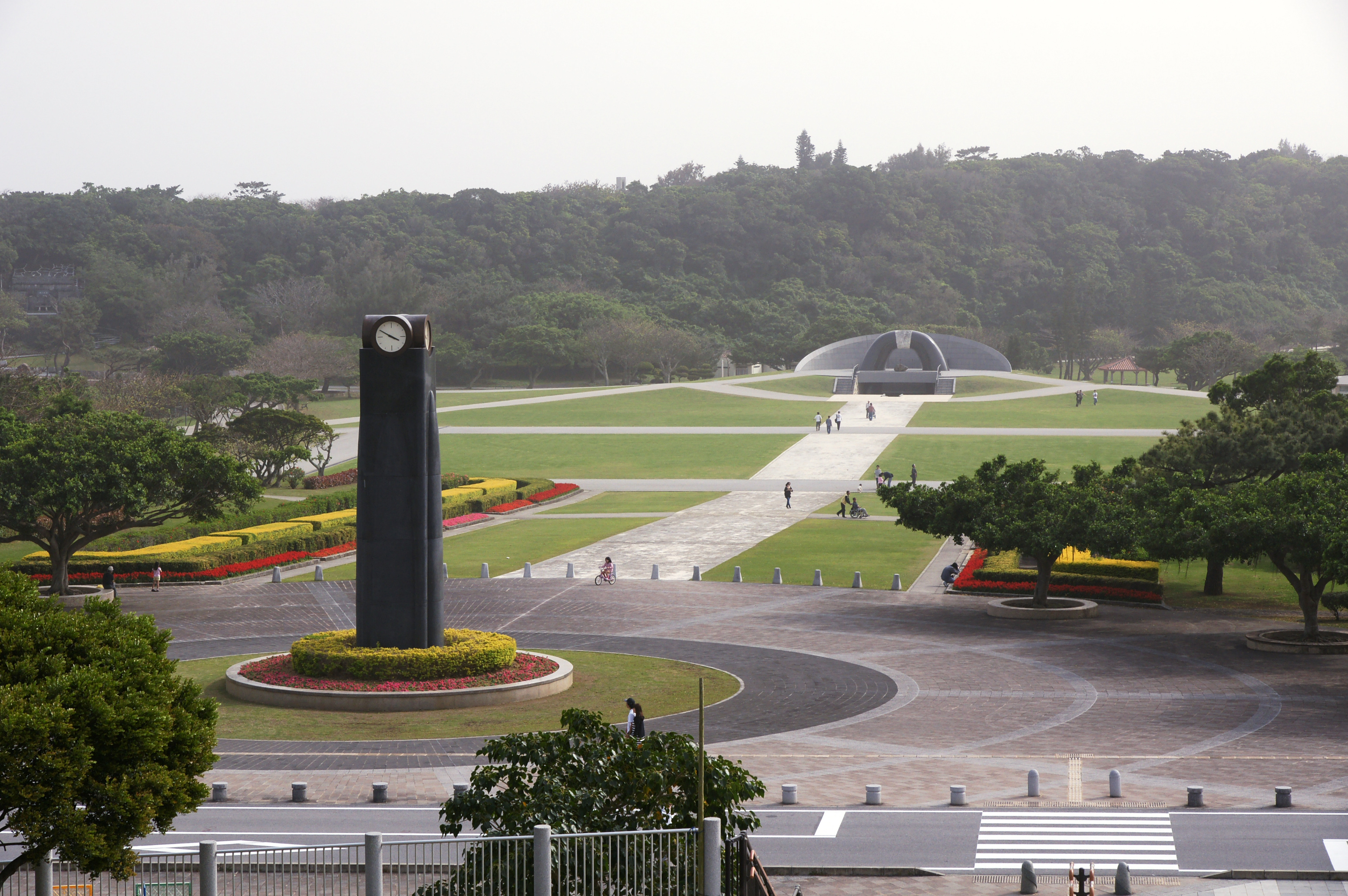 Okinawa Heiwakinen Memorial Park in Itoman and Yaese, Okinawa prefecture, Japan.